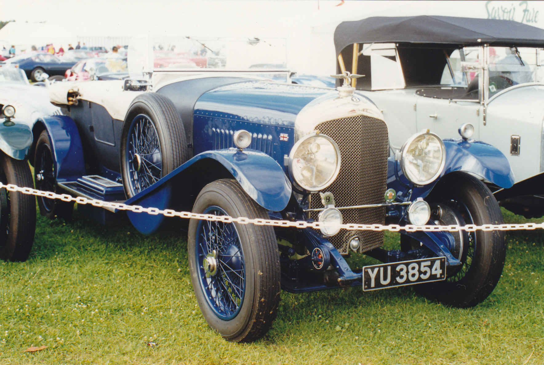 Bentley 4½-litre SL3051delivered October 1927 with Gurney Nutting Weymann saloon body Chassis SL3051 Engine SL3051 Reg YU3854 Source of data—Vintage Bentleys